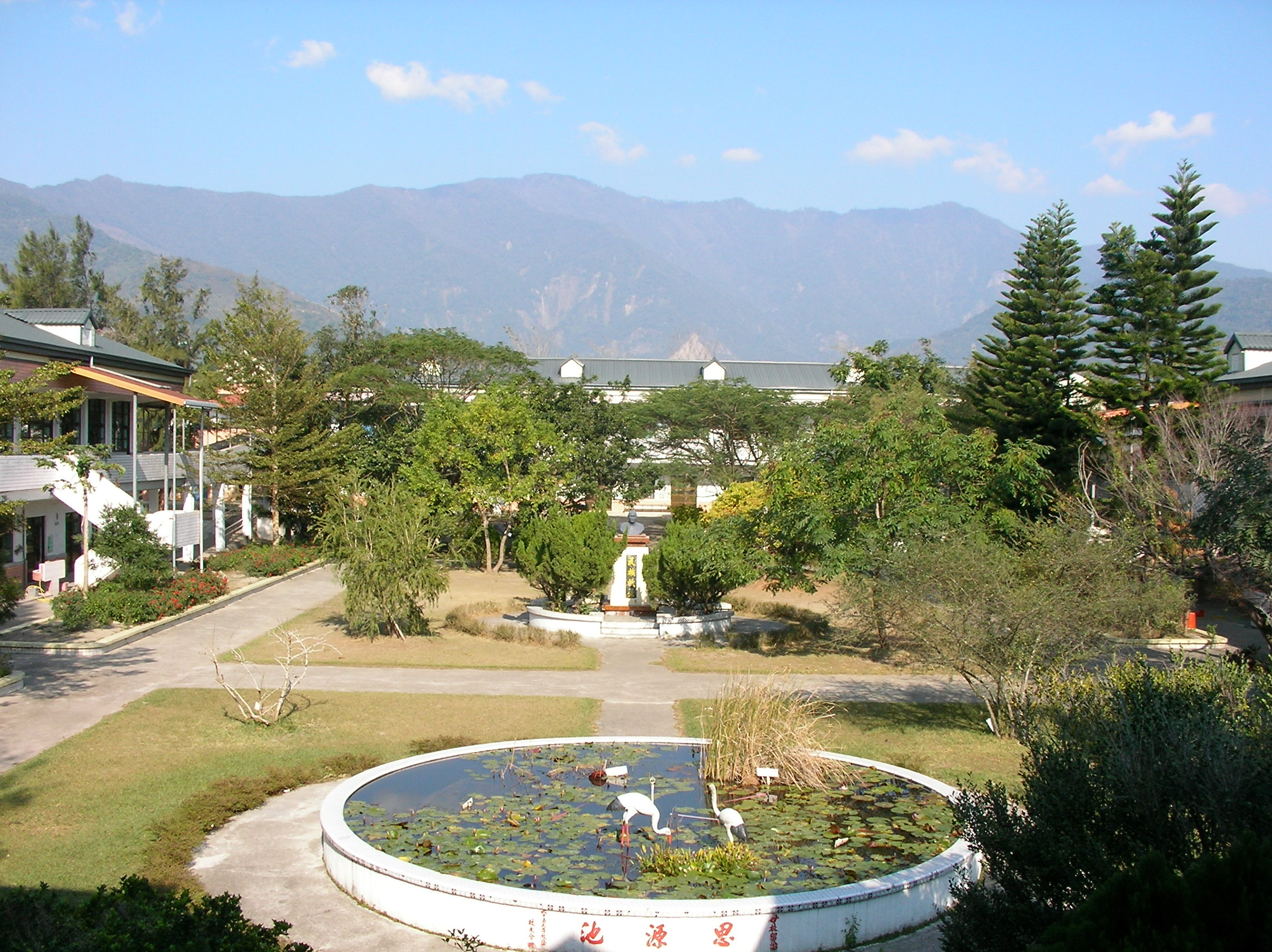 Fu Yuan Elementary School